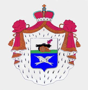 Coat of Arms of Aladin